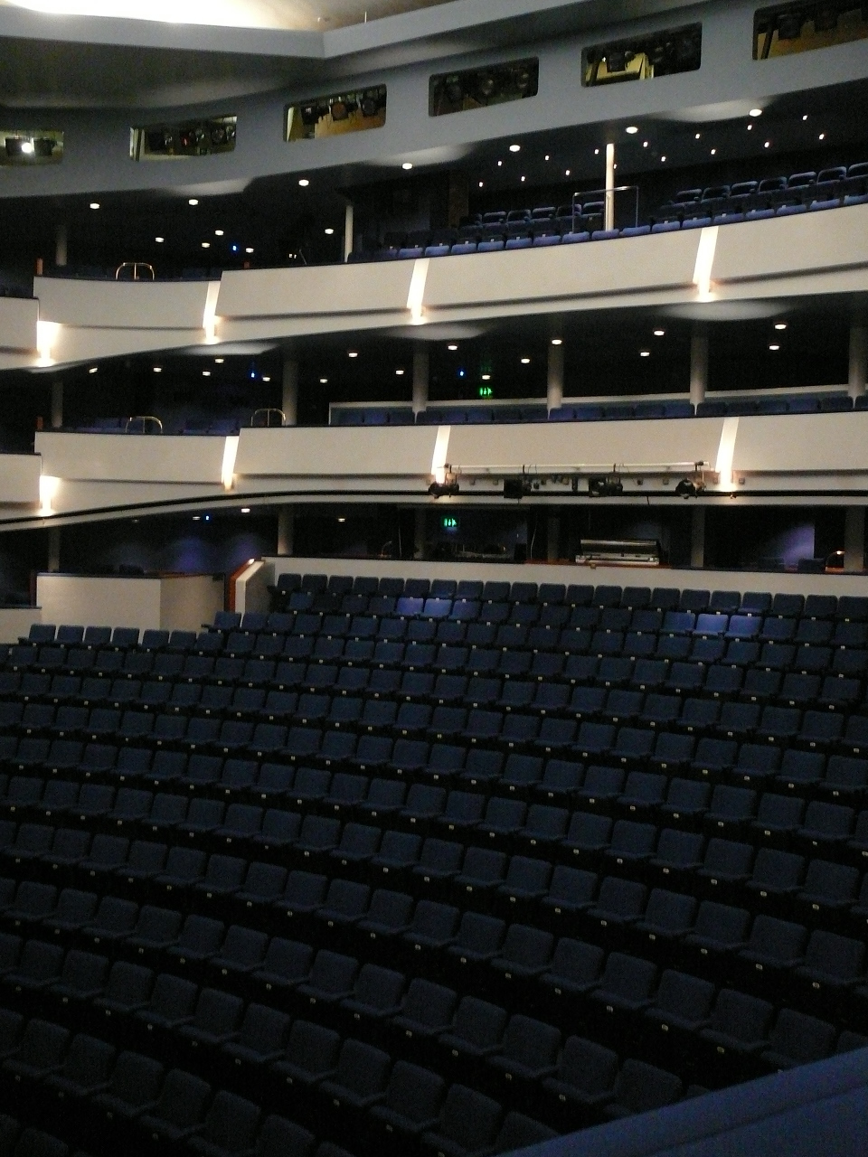 A view of the main Eden Court theatre, now names the Empire Theatre.